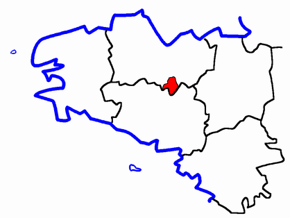 Description: Map for localisazion of cantons of Bretagne region in France Source: made by Hervé Tigier in april 2005 from another large map (published in 1990)